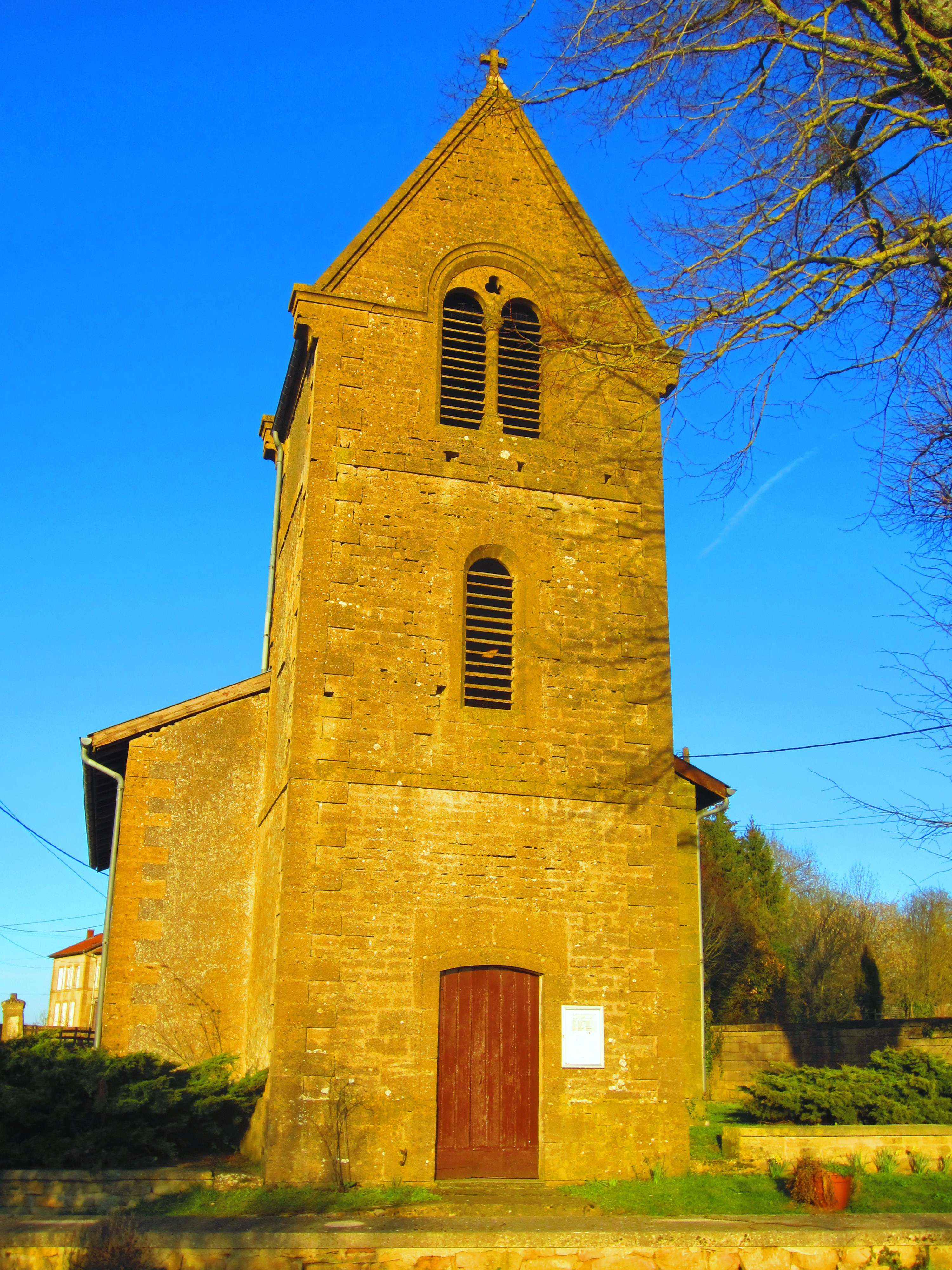 Petit Xivry Grand Failly church